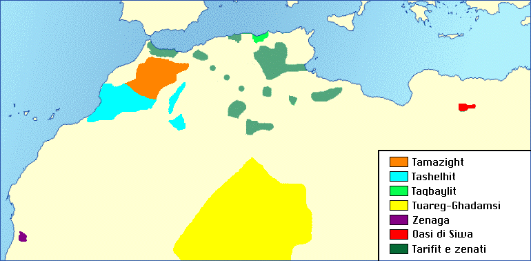 Map of Berber Languages